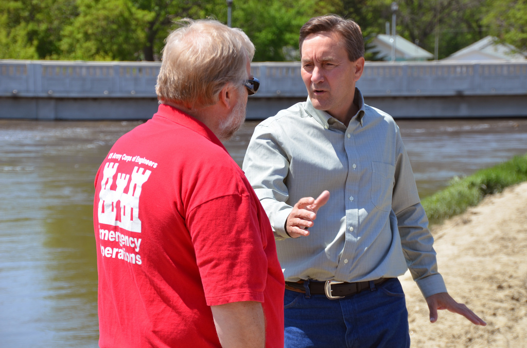 MINOT, N.D. — Congressman Rick Berg (right), talks to Roland Hamborg, U.S. Army Corps of Engineers St. Paul District, Souris River area flood engineer, about the temporary levees within the City of Minot, N.D. June 4. The Corps built approximately 10 miles of emergency levees in Minot to protect the citizens from historic flooding. The Corps's number one prioritnecessary to keep residents safe. y is protecting human life and they are prepared to do whatever is necessary to keep residents safe. (U.S. Army Corps of Engineers photo)